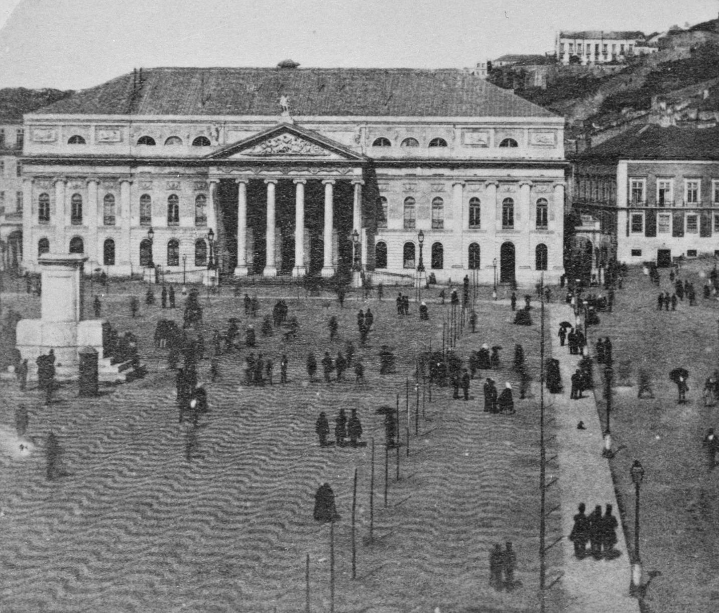 The first monument to King Peter IV of Portugal erected in the Rossio Square, in Lisbon. Its ungracefulness made Lisboners give it the moniker of "o galheteiro" ("the cruet-stand"). It was built in 1852 and demolished in 1864.